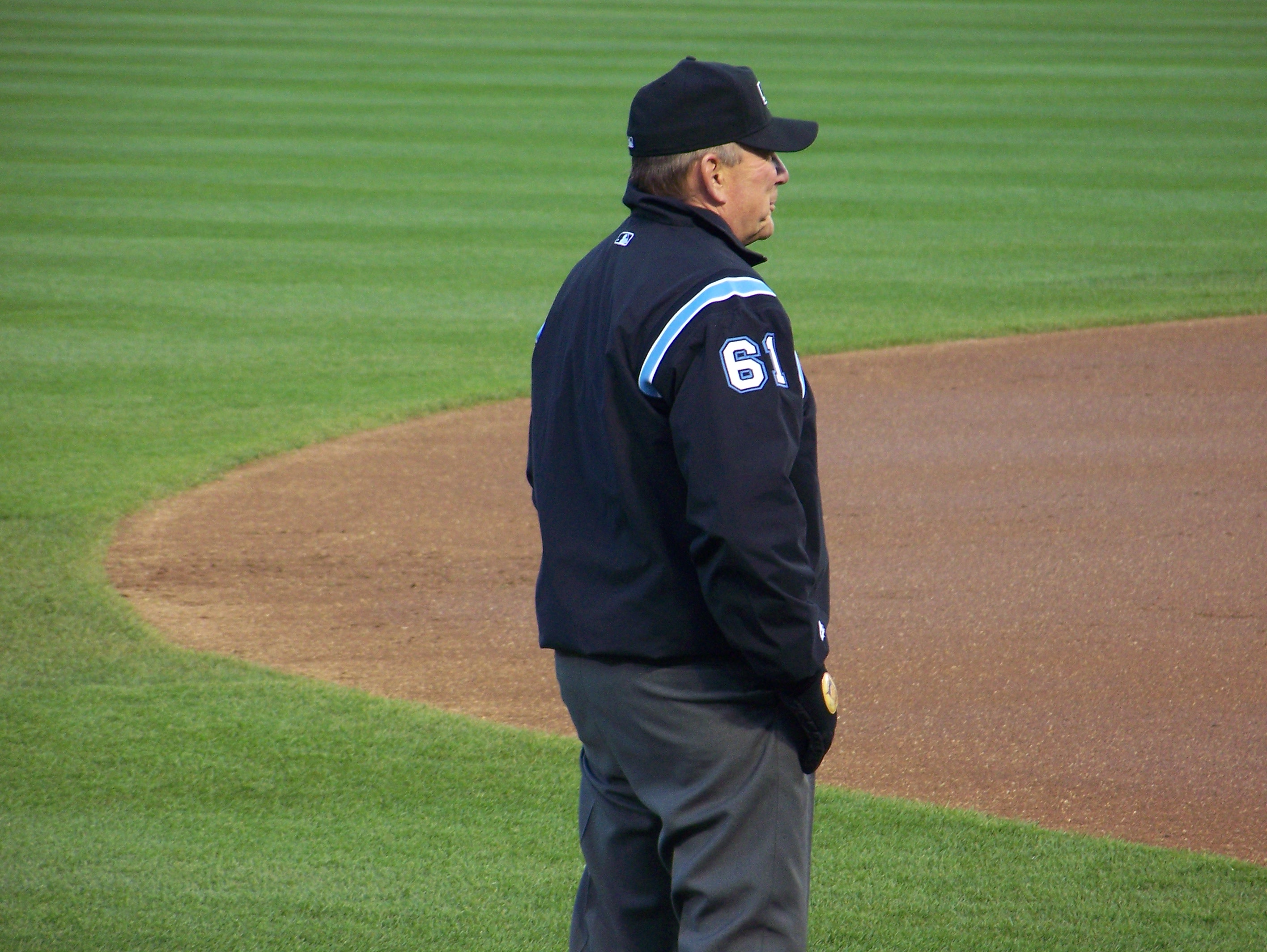 Bob Davidson umpiring third base during a game between the Kansas City Royals and the Baltimore Orioles at Camden Yards on April 13, 2007. 18:40, 21 July 2007 . . UNCCTF . . 2,832×2,128 (1.1 MB)